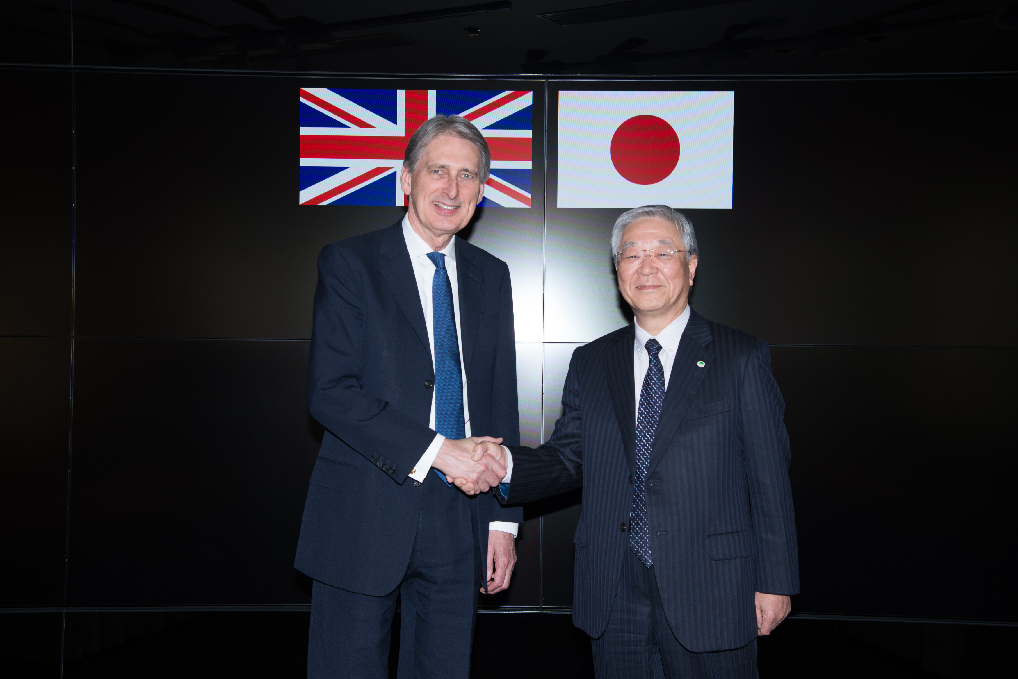 Philip Hammond, Secretary of State for Foreign and Commonwealth Affairs, met Hiroaki Nakanishi, Chairman of the Hitachi, Ltd., in Tōkyō Metropolis on January 8, 2016.